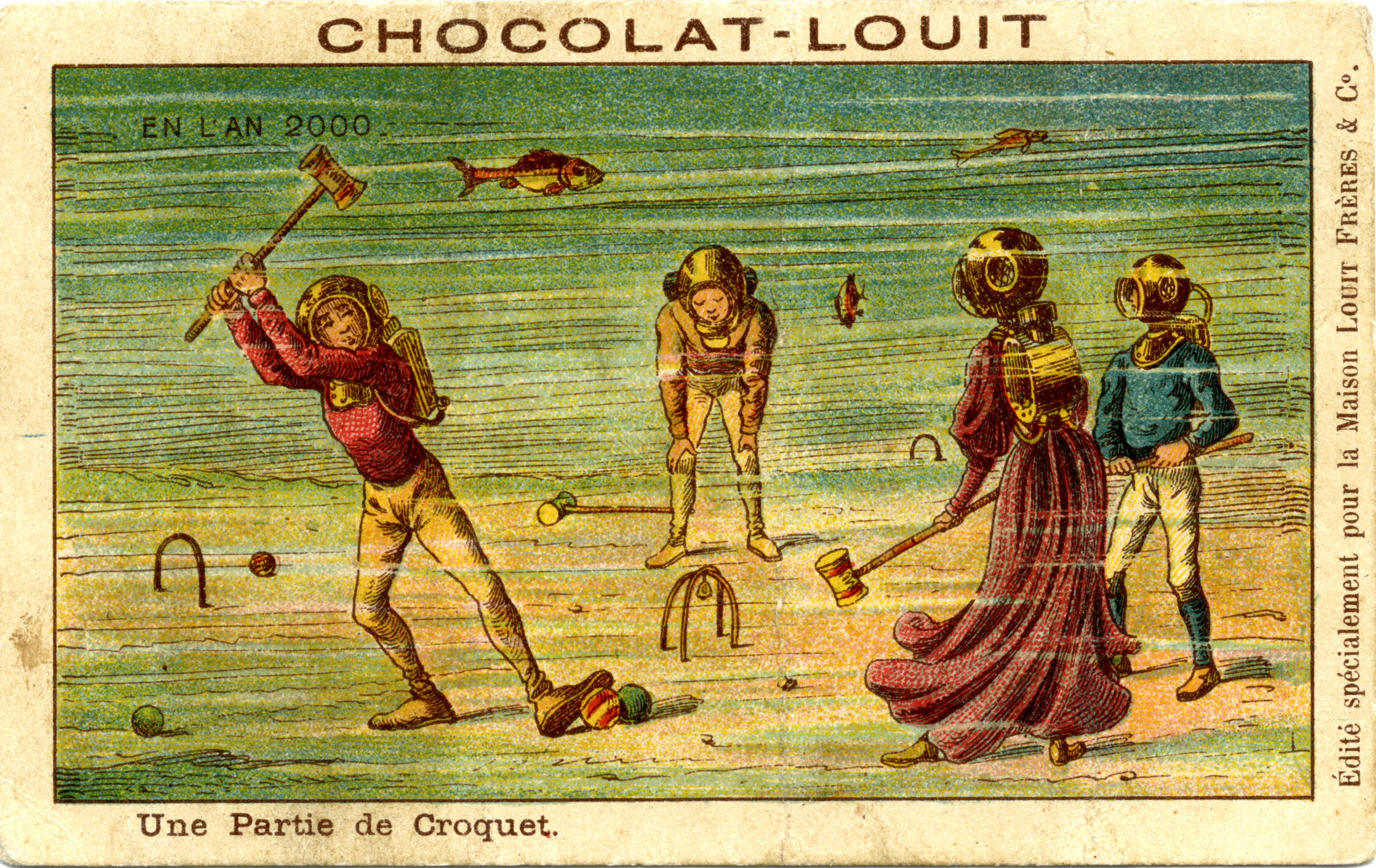 No known copyright restrictions. Please credit UBC Library as the image source. For more information, see Creator: Unknown Date Created: [between 1910 and 1919?] Source: Original Format: University of British Columbia. Library. Rare Books and Special Collections. Arkley Croquet Collection. Permanent URL